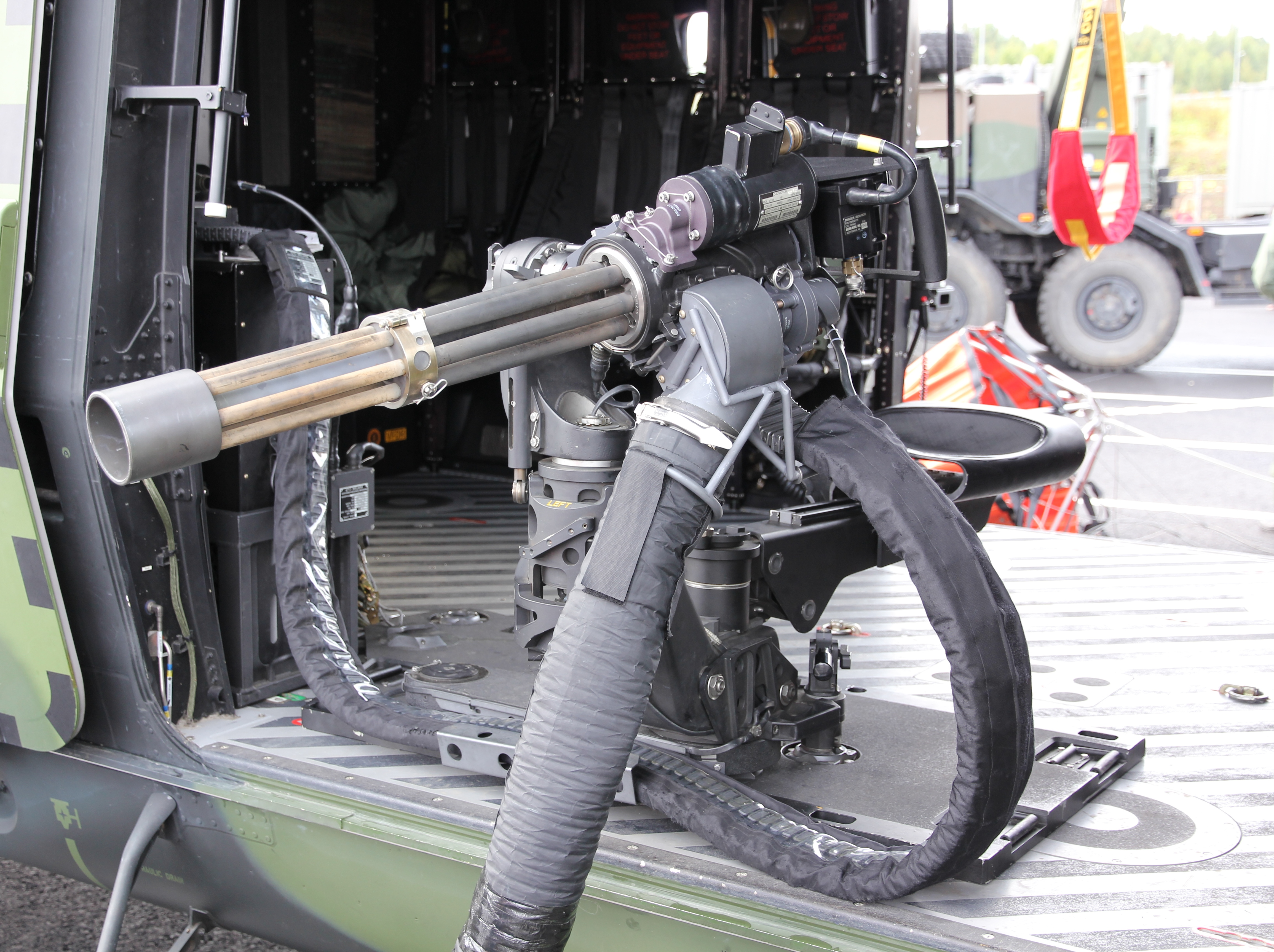 Finnish NH90 helicopter (NH-211) on display at Comprehensive security exhibition 2015 in Tampere. M134D-H minigun door gun.